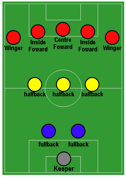 Description: Classic Soccer Formation - The Pyramid Author: Mario Ortegon